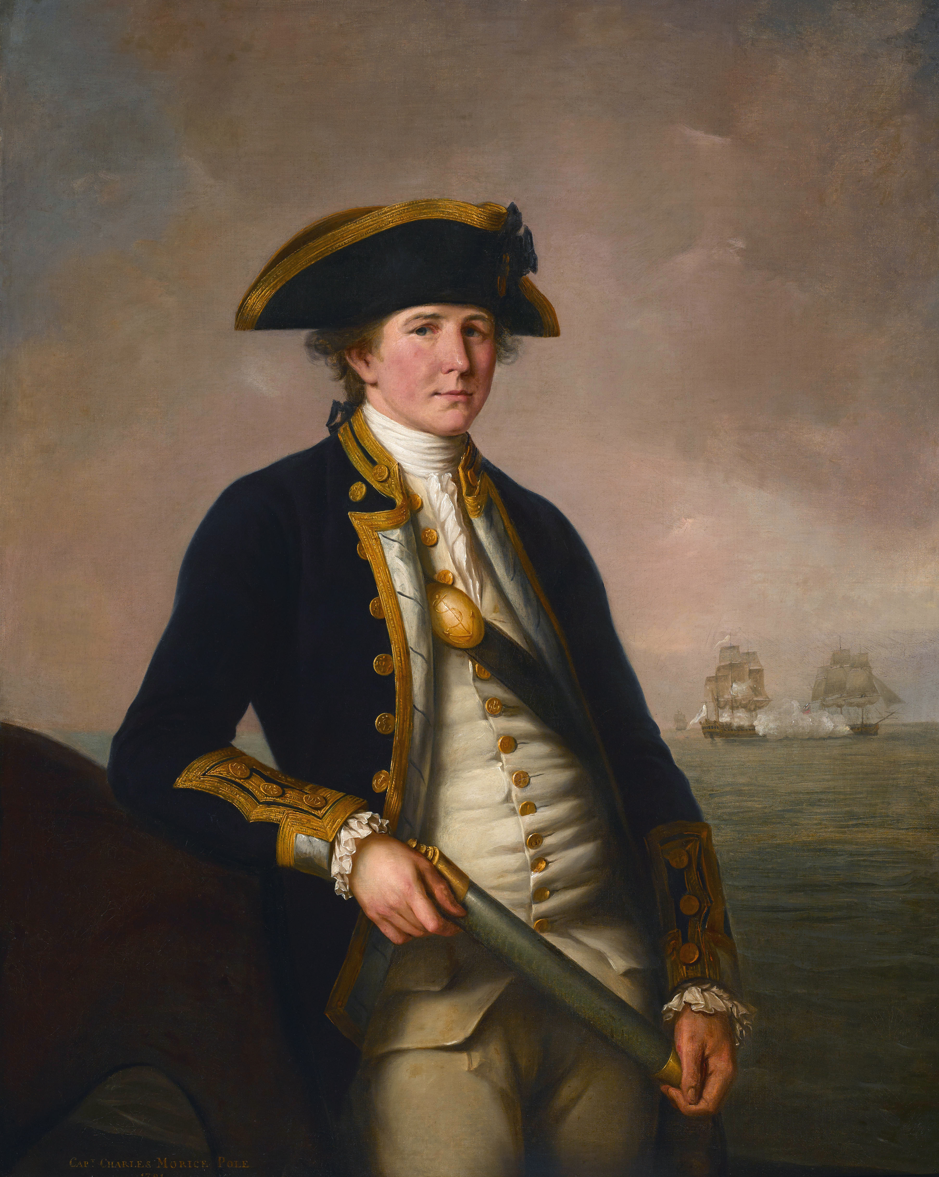 Captain Charles Morice Pole oil on canvas 100.9 x 127.6 cm inscribed b.l.: Capt. Charles Morice Pole / 1781